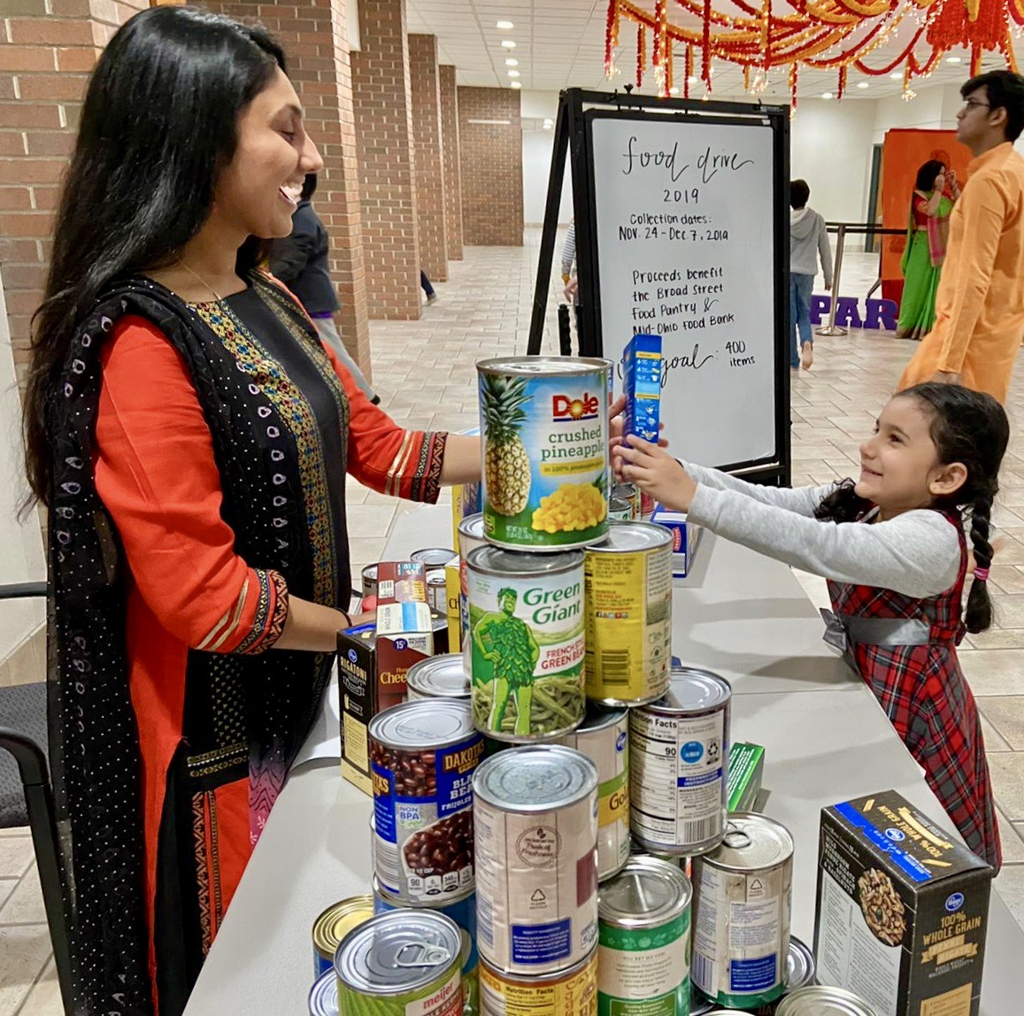 BAPS Charities Food Drive